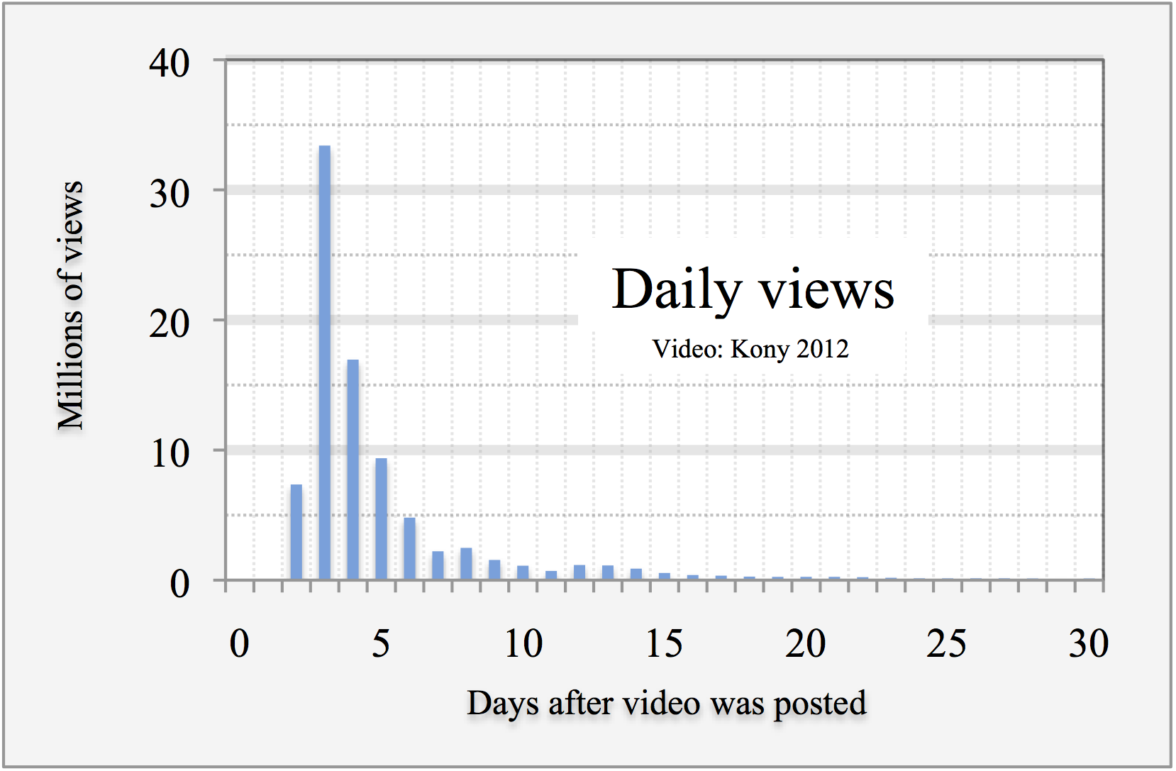 Graph of daily views of Kony 2012 video. Video name: KONY 2012 Video view data taken from video's Wayback Machine archives Archives chosen were the latest archives of the day, for thirty days. Suggested footnote: Raw data accessed September 30, 2018 from Wayback Machine archives of [ YouTube video page] stored on (click on year 2012). [1] Raw data: Date Day Cumulative views Daily views Day Daily/million Day Cumul/million 5-Mar-12 0 0 0 0 0.000 0 0.000 6-Mar-12 1 21,690 21,690 1 0.022 1 0.022 7-Mar-12 2 7,377,102 7,355,412 2 7.355 2 7.377 8-Mar-12 3 40,781,302 33,404,200 3 33.404 3 40.781 9-Mar-12 4 57,733,541 16,952,239 4 16.952 4 57.734 10-Mar-12 5 67,106,844 9,373,303 5 9.373 5 67.107 11-Mar-12 6 71,914,203 4,807,359 6 4.807 6 71.914 12-Mar-12 7 74,134,117 2,219,914 7 2.220 7 74.134 13-Mar-12 8 76,614,482 2,480,365 8 2.480 8 76.614 14-Mar-12 9 78,167,891 1,553,409 9 1.553 9 78.168 15-Mar-12 10 79,277,982 1,110,091 10 1.110 10 79.278 16-Mar-12 11 79,987,245 709,263 11 0.709 11 79.987 17-Mar-12 12 81,151,593 1,164,348 12 1.164 12 81.152 18-Mar-12 13 82,282,426 1,130,833 13 1.131 13 82.282 19-Mar-12 14 83,167,878 885,452 14 0.885 14 83.168 20-Mar-12 15 83,720,754 552,876 15 0.553 15 83.721 21-Mar-12 16 84,115,938 395,184 16 0.395 16 84.116 22-Mar-12 17 84,461,758 345,820 17 0.346 17 84.462 23-Mar-12 18 84,734,648 272,890 18 0.273 18 84.735 24-Mar-12 19 84,988,062 253,414 19 0.253 19 84.988 25-Mar-12 20 85,243,122 255,060 20 0.255 20 85.243 26-Mar-12 21 85,498,432 255,310 21 0.255 21 85.498 27-Mar-12 22 85,727,614 229,182 22 0.229 22 85.728 28-Mar-12 23 85,911,202 183,588 23 0.184 23 85.911 29-Mar-12 24 86,054,951 143,749 24 0.144 24 86.055 30-Mar-12 25 86,195,839 140,888 25 0.141 25 86.196 31-Mar-12 26 86,340,781 144,942 26 0.145 26 86.341 1-Apr-12 27 86,484,828 144,047 27 0.144 27 86.485 2-Apr-12 28 86,617,926 133,098 28 0.133 28 86.618 3-Apr-12 29 86,711,969 94,043 29 0.094 29 86.712 4-Apr-12 30 86,844,060 132,091 30 0.132 30 86.844